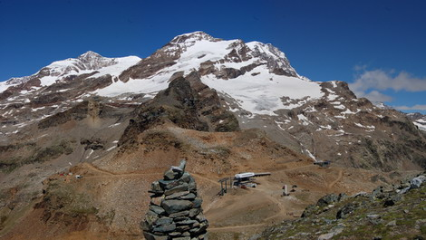 Passo dei Salati viewed from the summit of